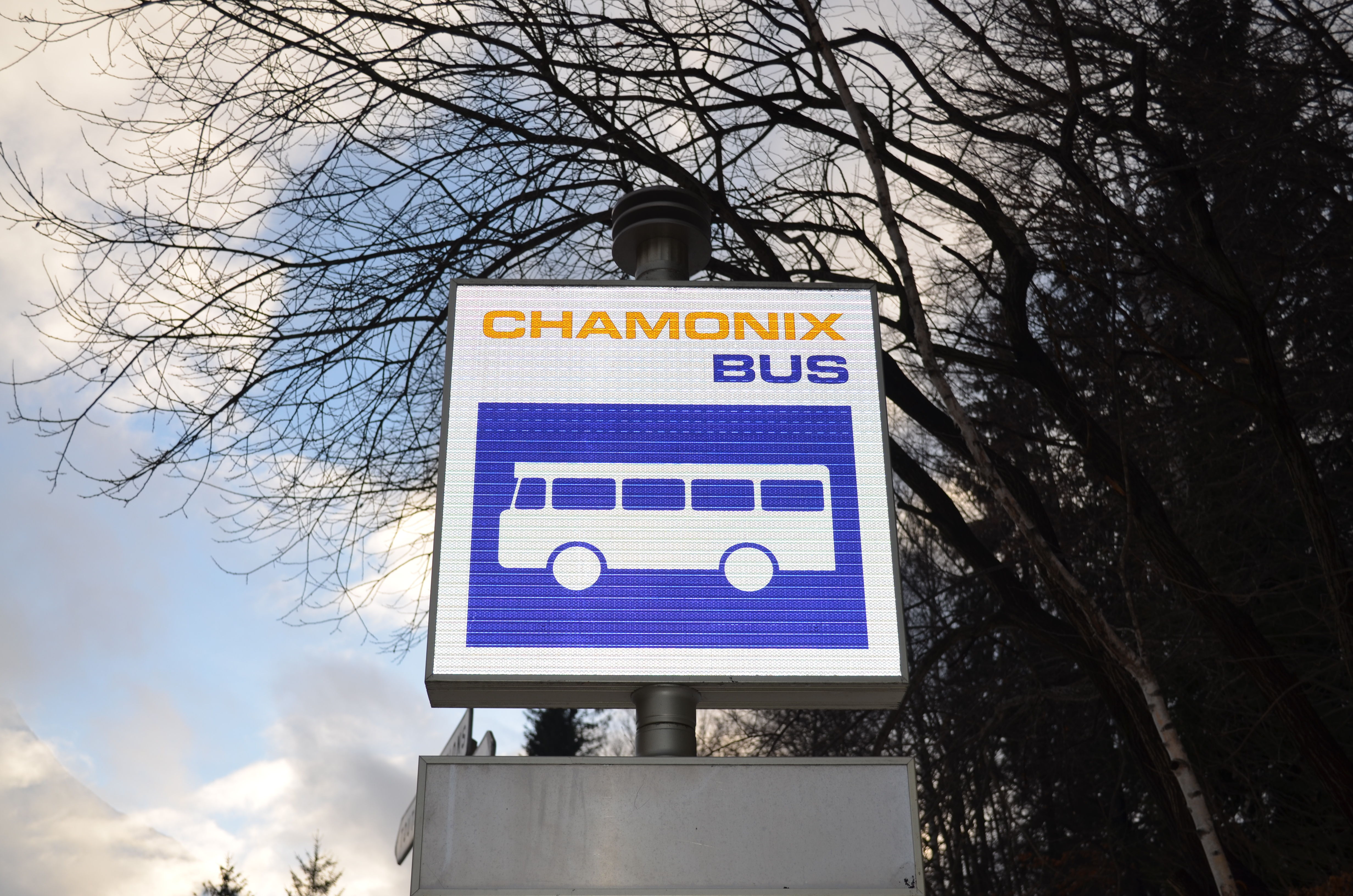 Chamonix is a resort town at the foot of Mont Blanc in France. A very popular winter ski resort with some excellent skiing including one of the longest ski runs in the world. Read more about Chamonix on Chamonix eGuideChamonix is a resort town at the foot of Mont Blanc in France. A very popular winter ski resort with some excellent skiing including one of the longest ski runs in the world. Read more about Chamonix on Chamonix eGuide